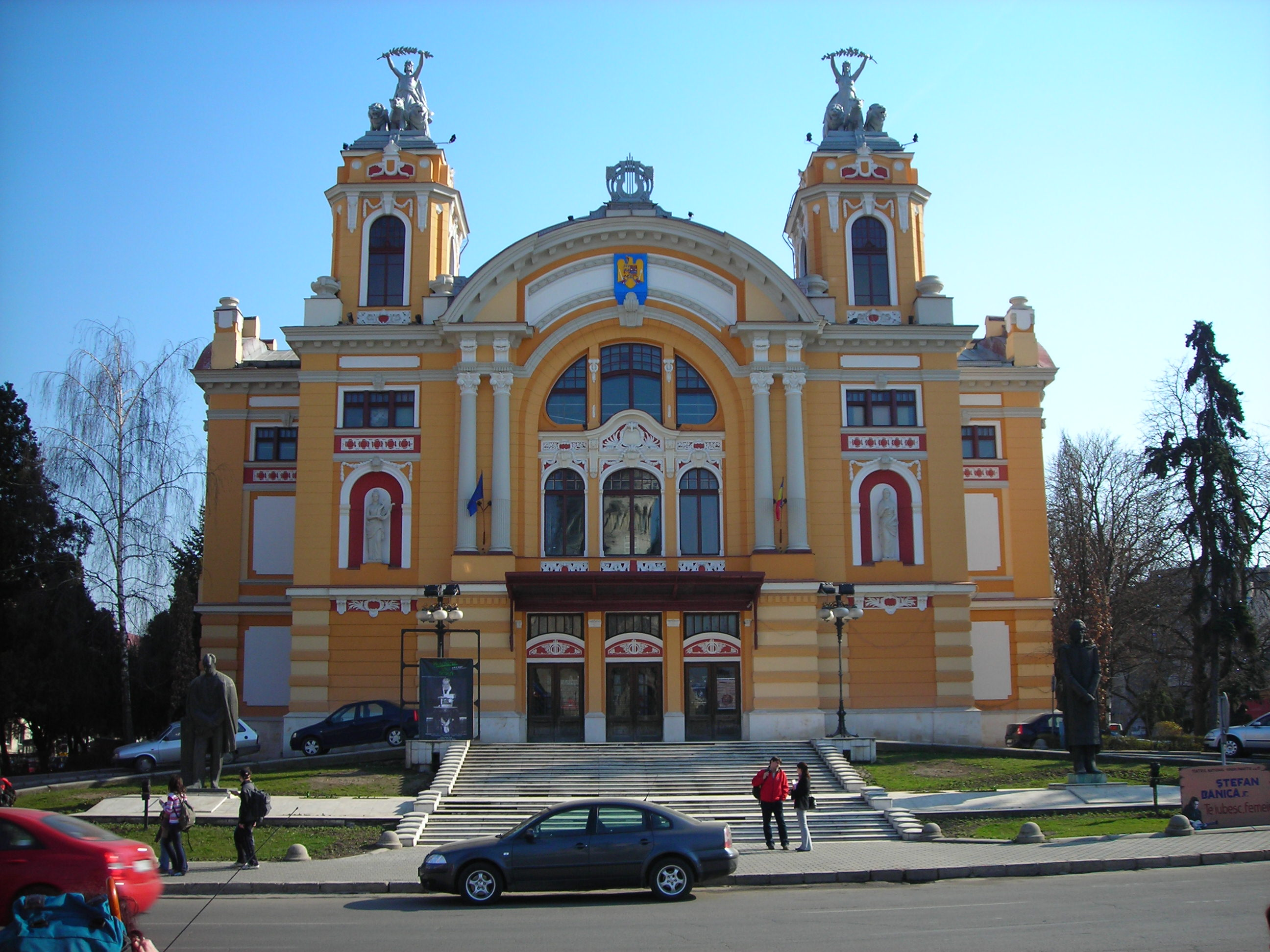 A picture of the National Theatre and National Romanian Opera of Cluj-Napoca building; taken after the re-painting of the building.